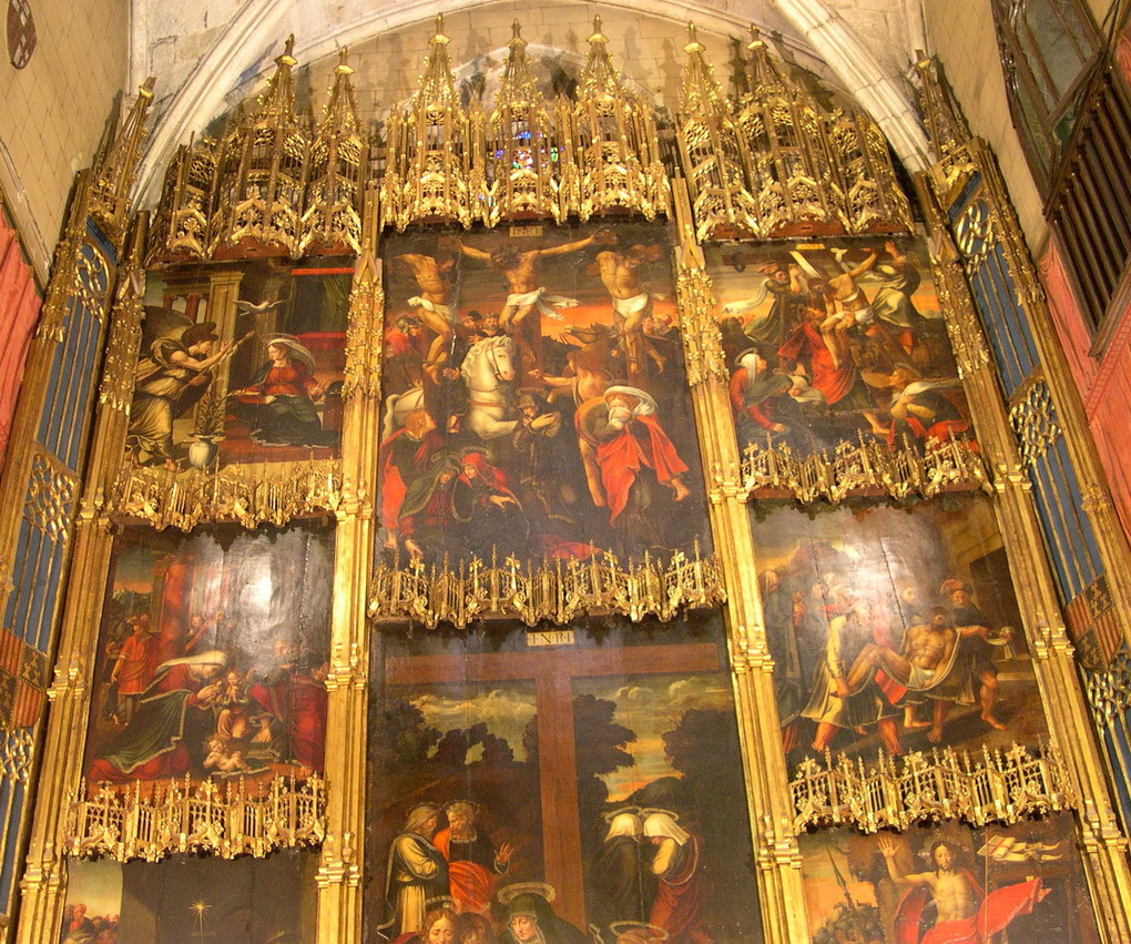 Passion altarpiece in Sant Just i Sant Pastor church in Barcelona, by painter Pere Nunyes.